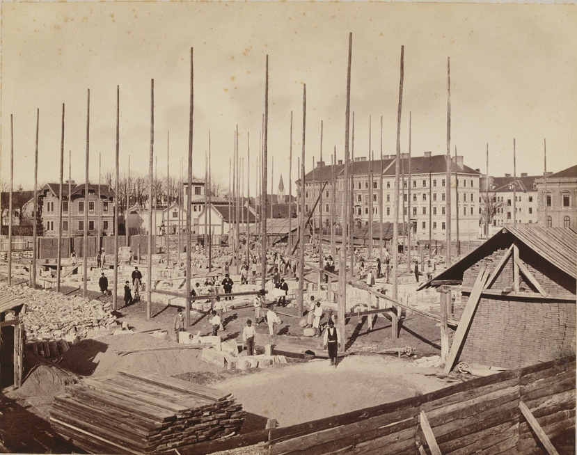 Building of Narodni muzej in Ljubljana in 1883.